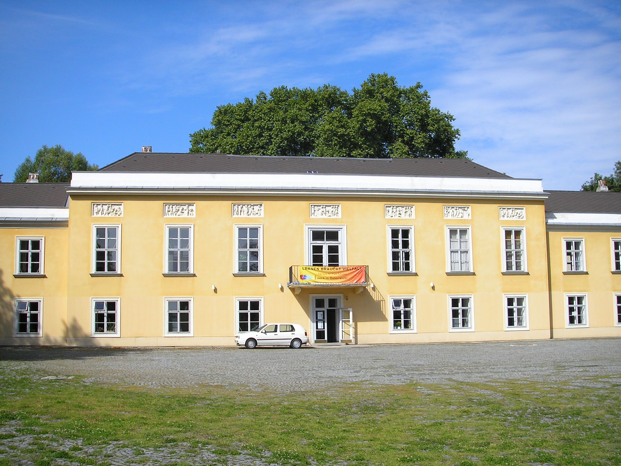 Image of the park at Schloß Pötzleinsdorf and the Schloss.